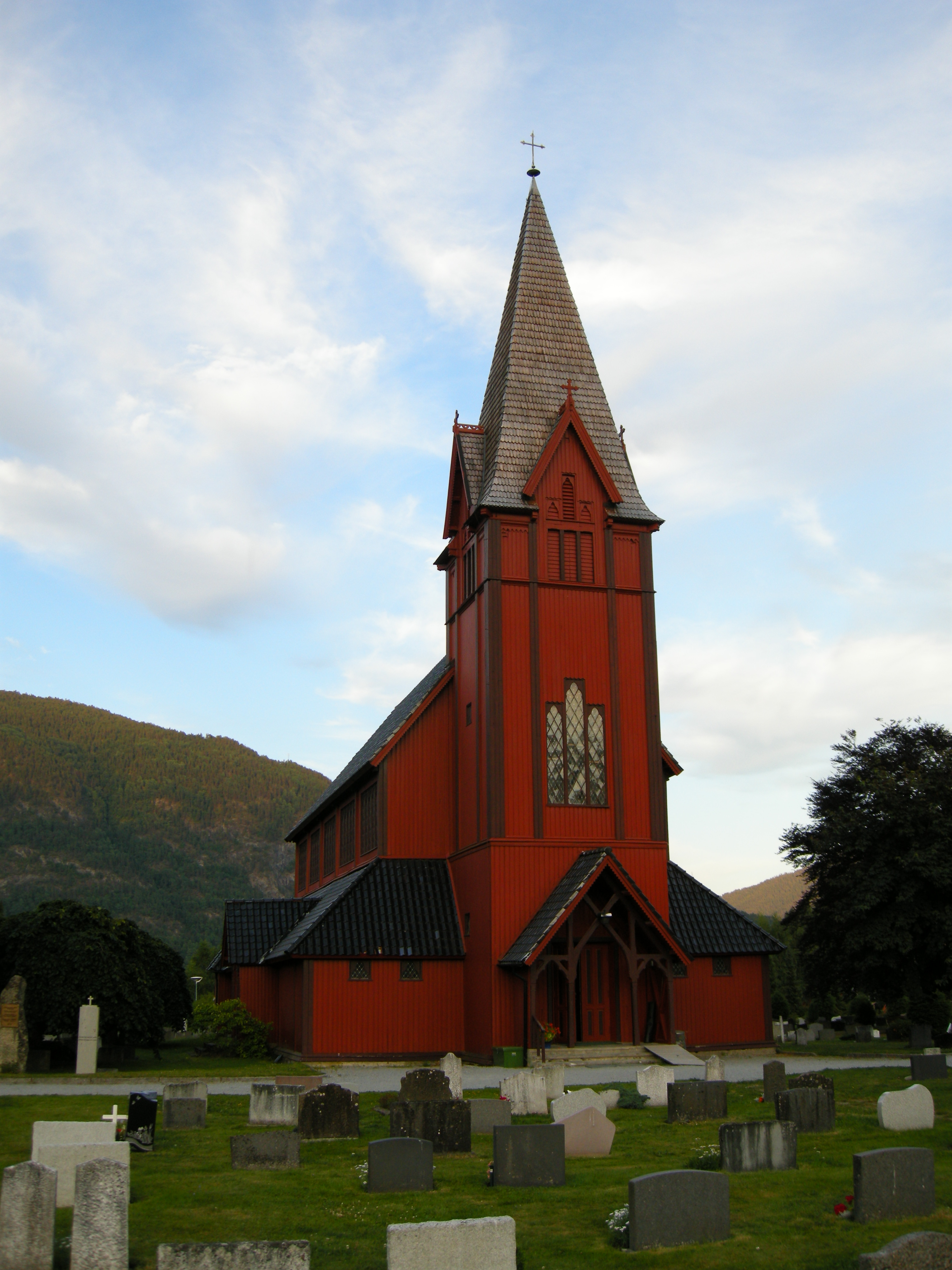 Stedje church